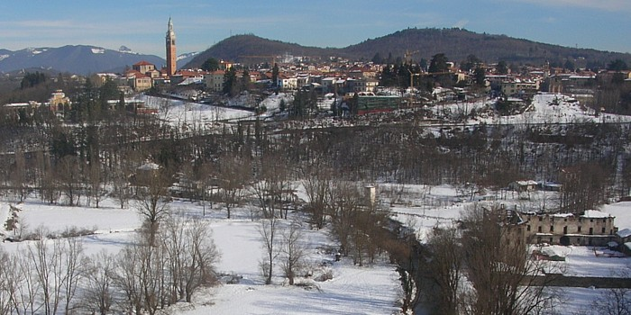 Malnate Picture taken by user:Idéfix, january 2006